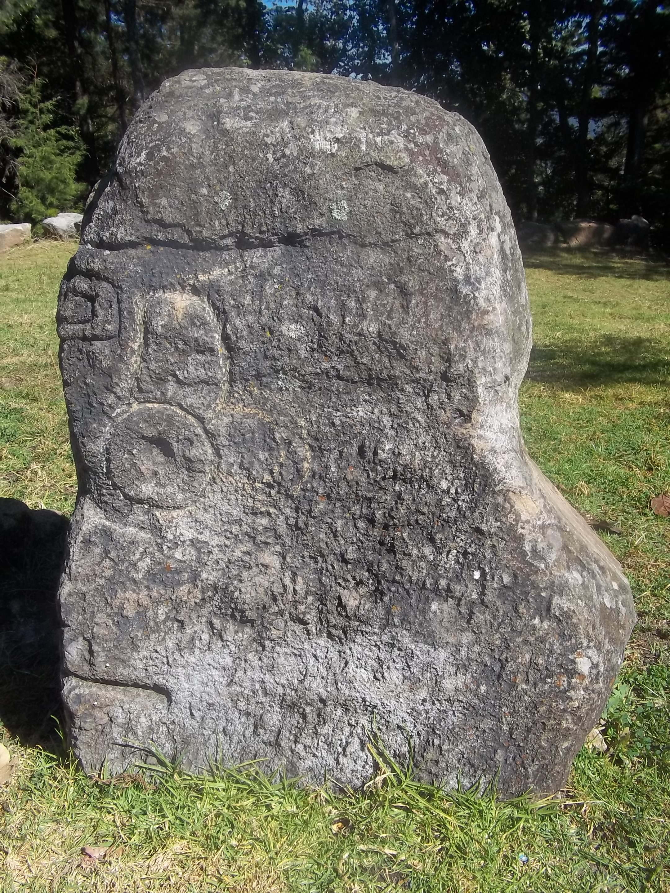 K'iaqbal, Cantel, Quetzaltenango, Guatemala. Maya ritual site with a couple of pre-Columbian scultpures. Stela fragment with part of a sculpture, probably representing an earspool and portion of headdress. This stone is used as a modern altar and is referred to in K'iche' as Belejeb Batz' ("nine monkey"), and in Spanish as "El Mono" ("the monkey").